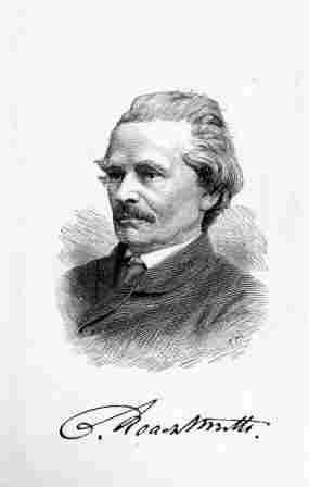 Charles Roach Smith, amateur archaeologist from the Isle of Wight